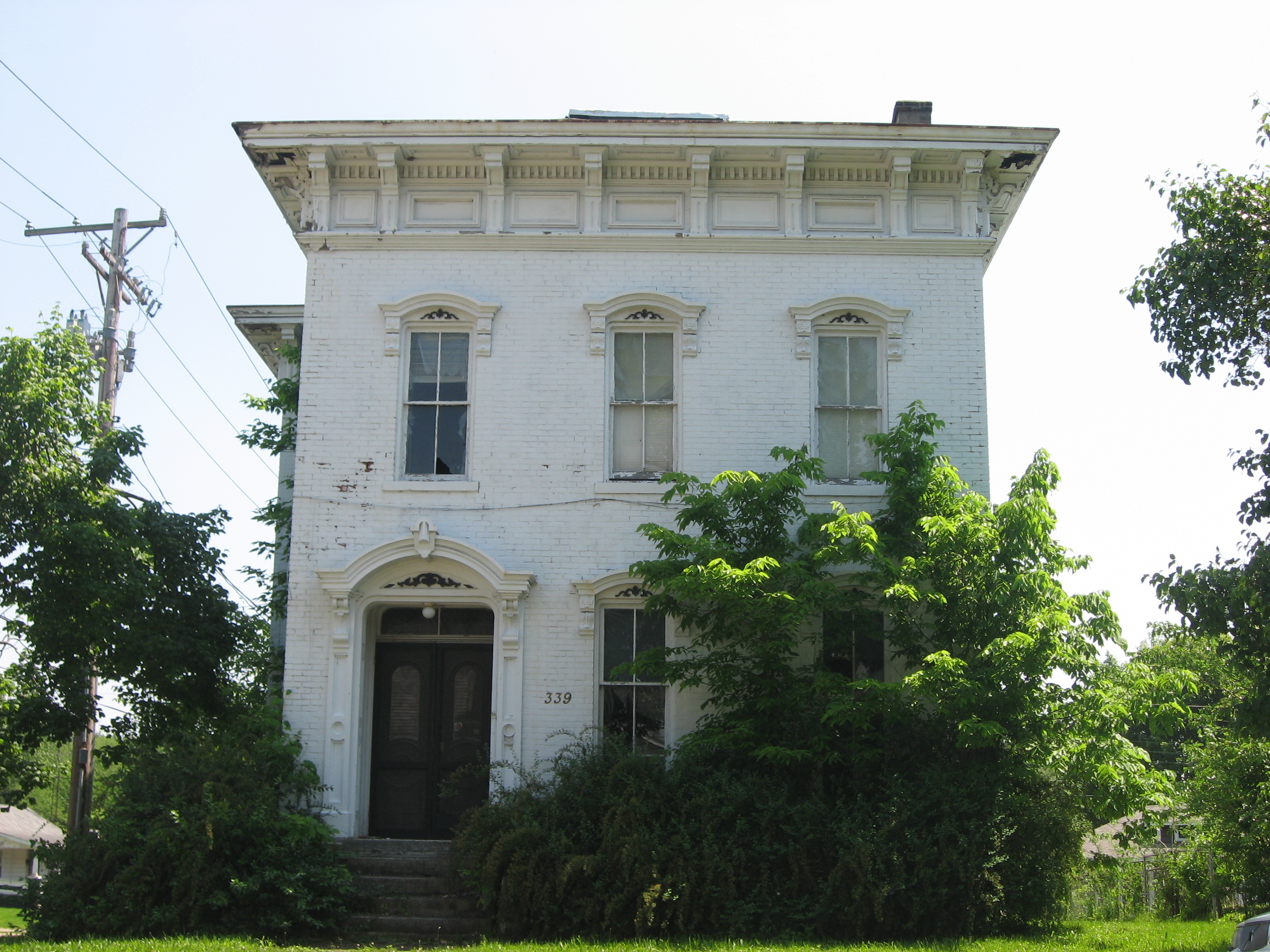 Front of the Hollencamp House, located at 339 E. Second Street in Xenia, Ohio, United States. Built in 1871, it is listed on the National Register of Historic Places.